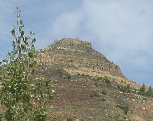 Image of the south side of the castle